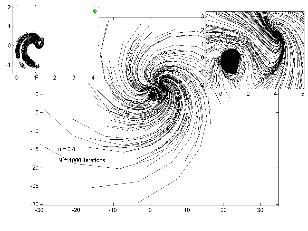 Ikeda trajectory plot made using MATLAB